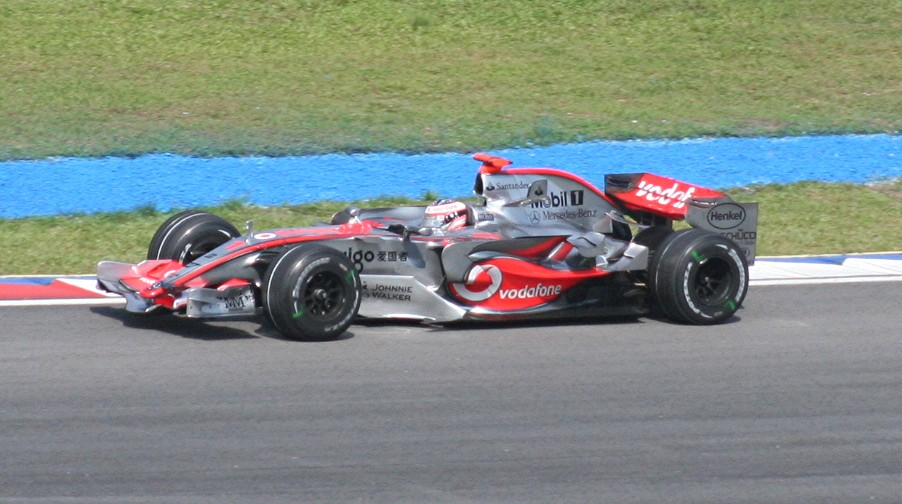 Fernando Alonso driving for McLaren in the 2007 Malaysian Grand Prix.